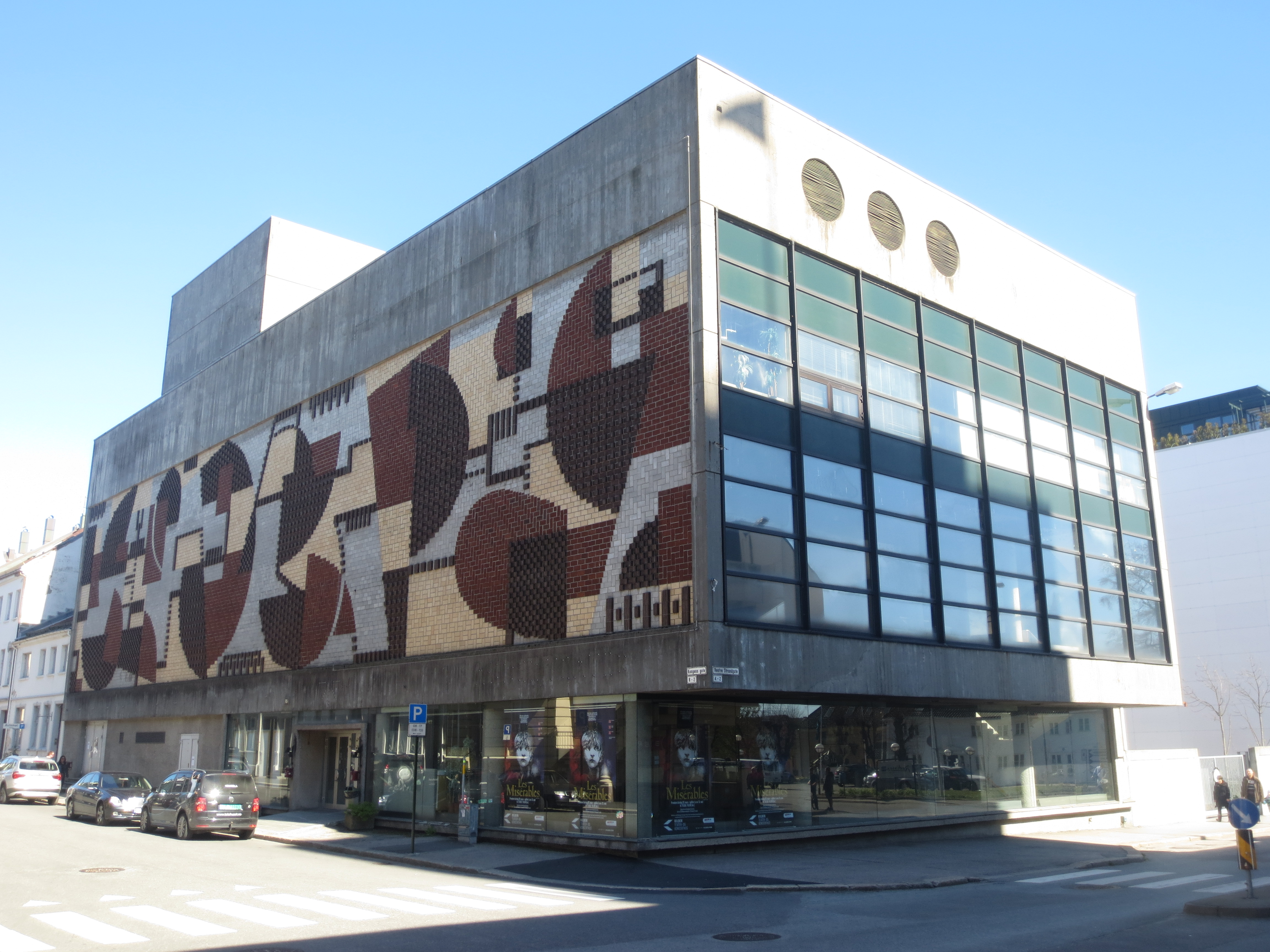 Kristiansand Teater, formerly Agder Teater, in the city Kristiansand, Norway